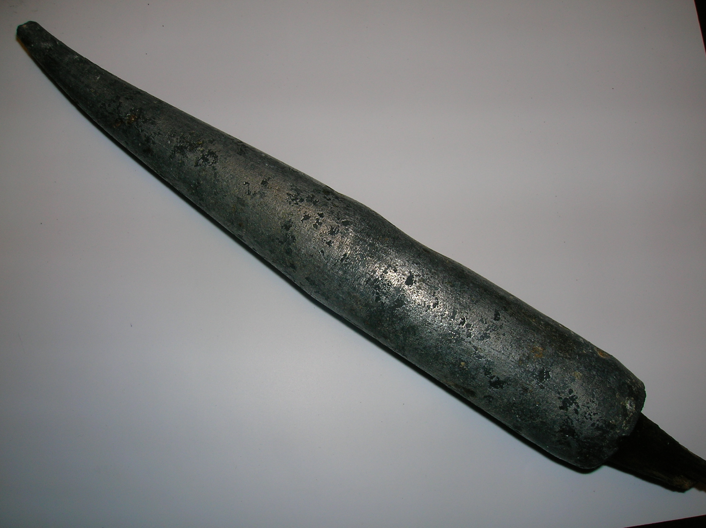 The metal top of a lance used in historical re-enactment